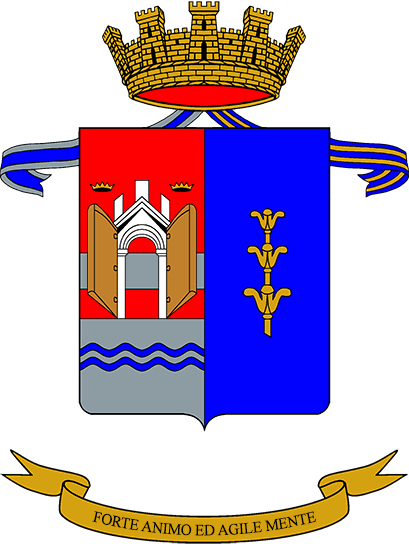 Coat of Arms of the 232nd Signal Regiment "Fadalto"; Italian Army